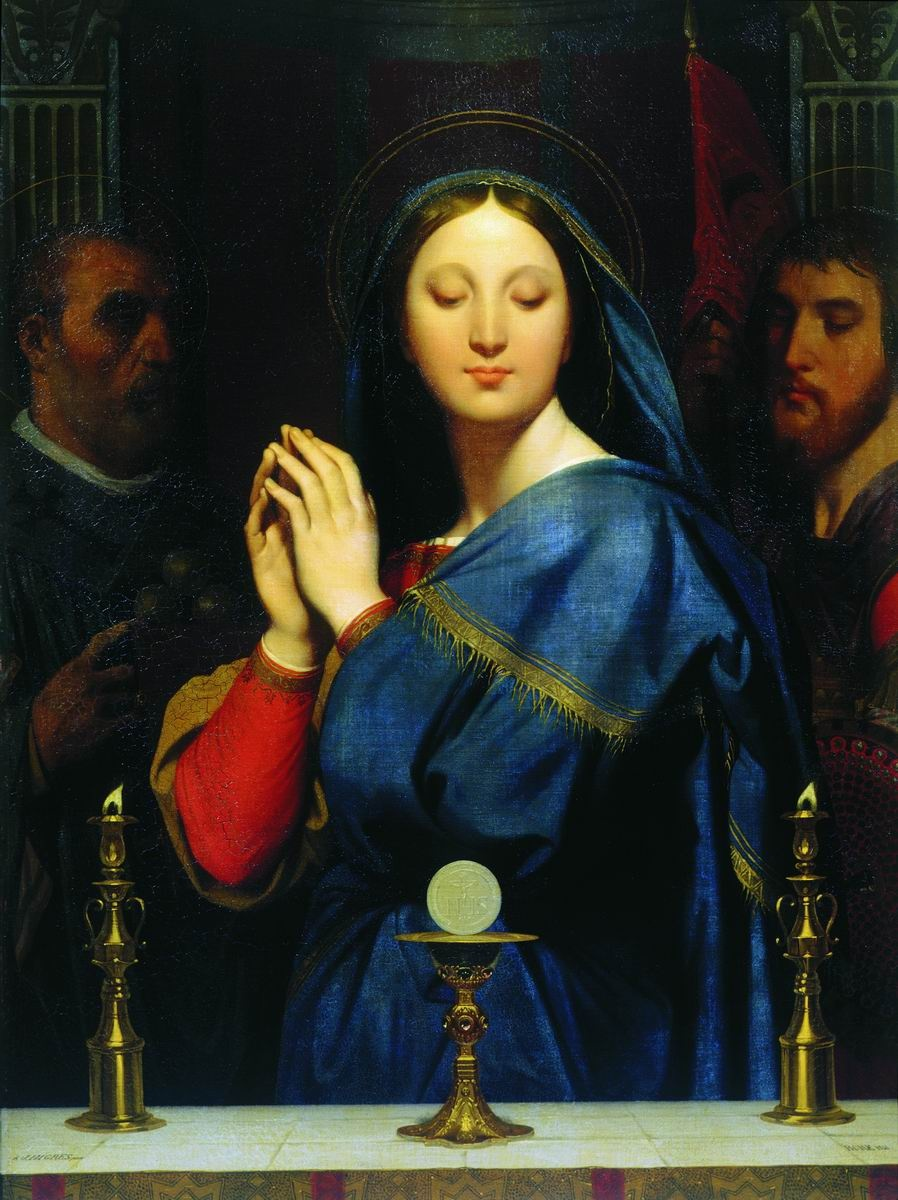 The Virgin Adoring the Host, painted in 1841 for the future czar Alexander II, which includes the two patron saints of Russia, Alexander Nevsky and Nicholas. [1]